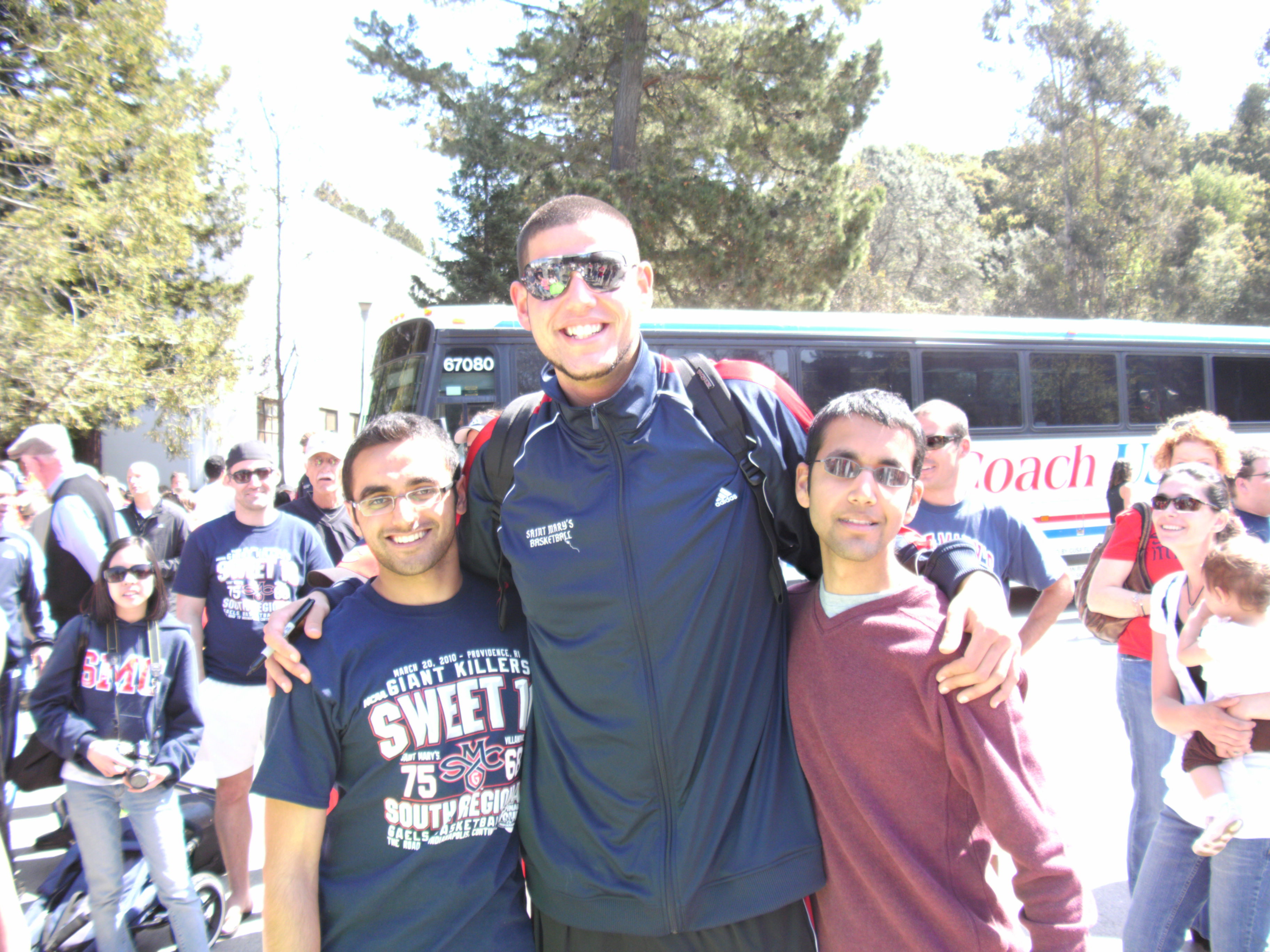 Omar Samhan (center) with Jon (right) and Myself (left) at the Saint Mary's Basketball Welcome Home Celebration.